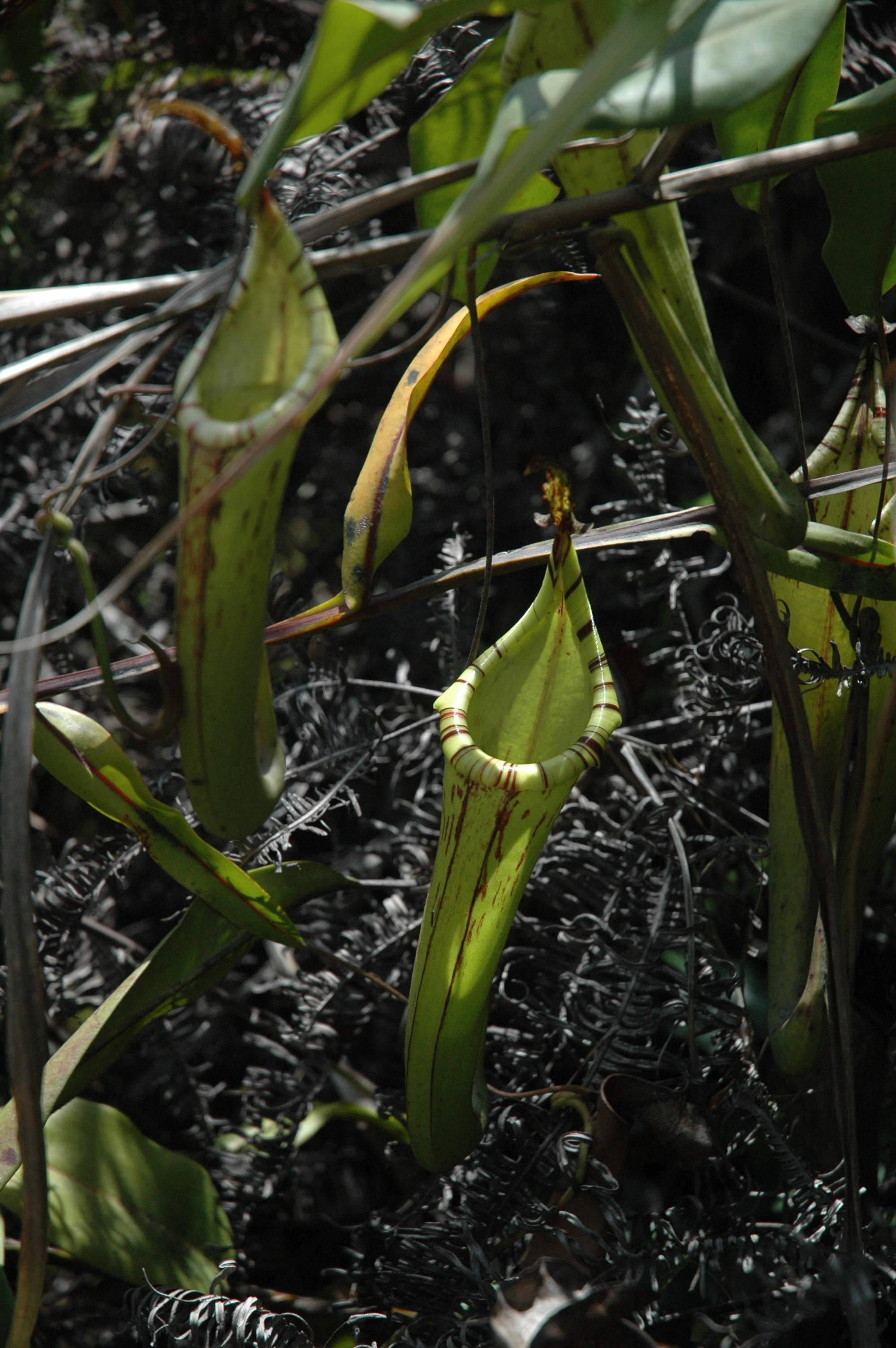 Nepenthes fusca on a logging road going to Gunung Murud by Jeremiah Harris